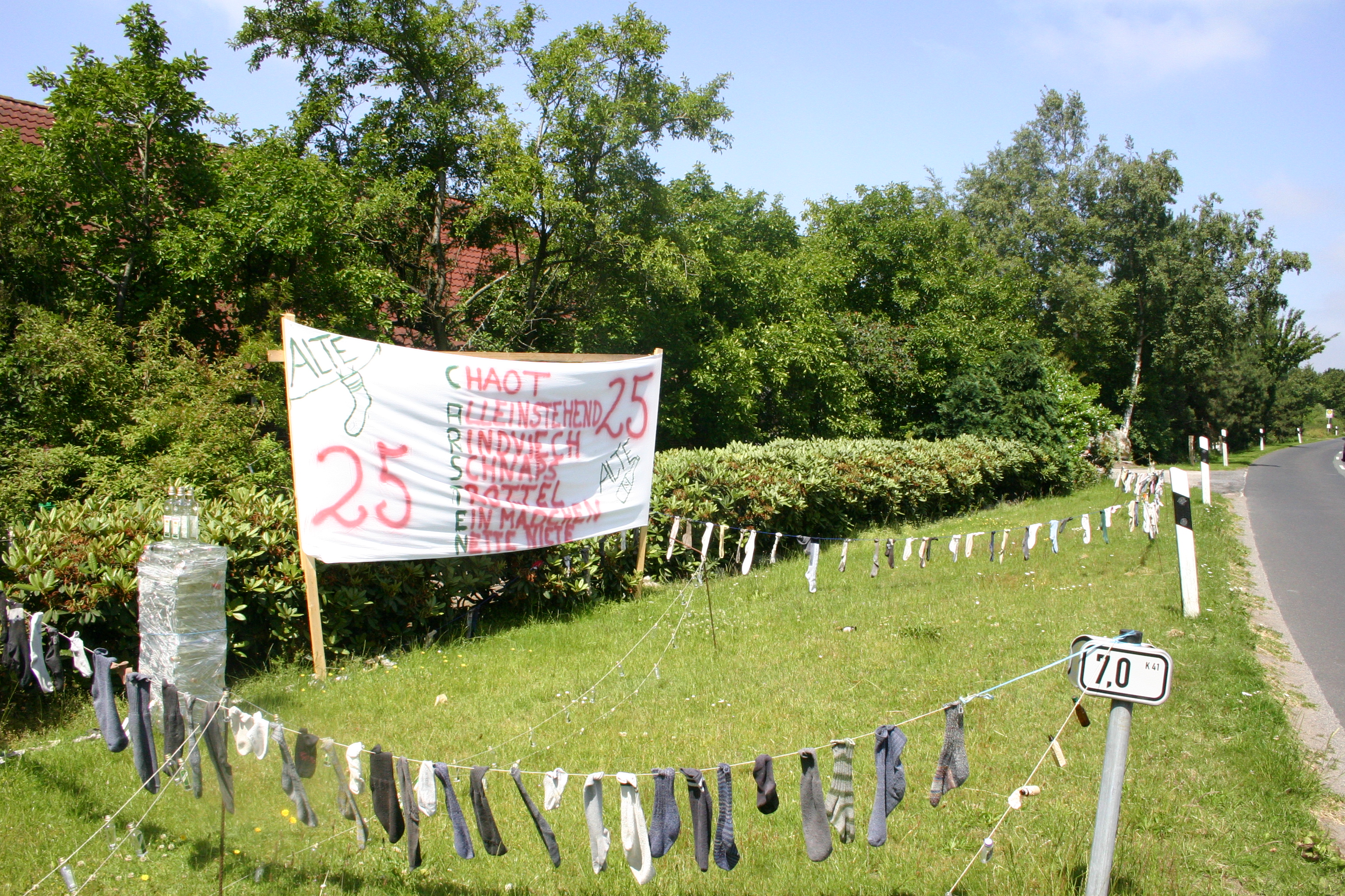 A tradition in East Frisia, Germany: On occasion of the 25th birthday of males, those who are "still" not married will receive a band of old socks in front of their house. This is arranged by neighbors and friends. Additionally, old bottles are put in front of the house (the German term "Flasche" does not only mean "bottle", but also "loser").